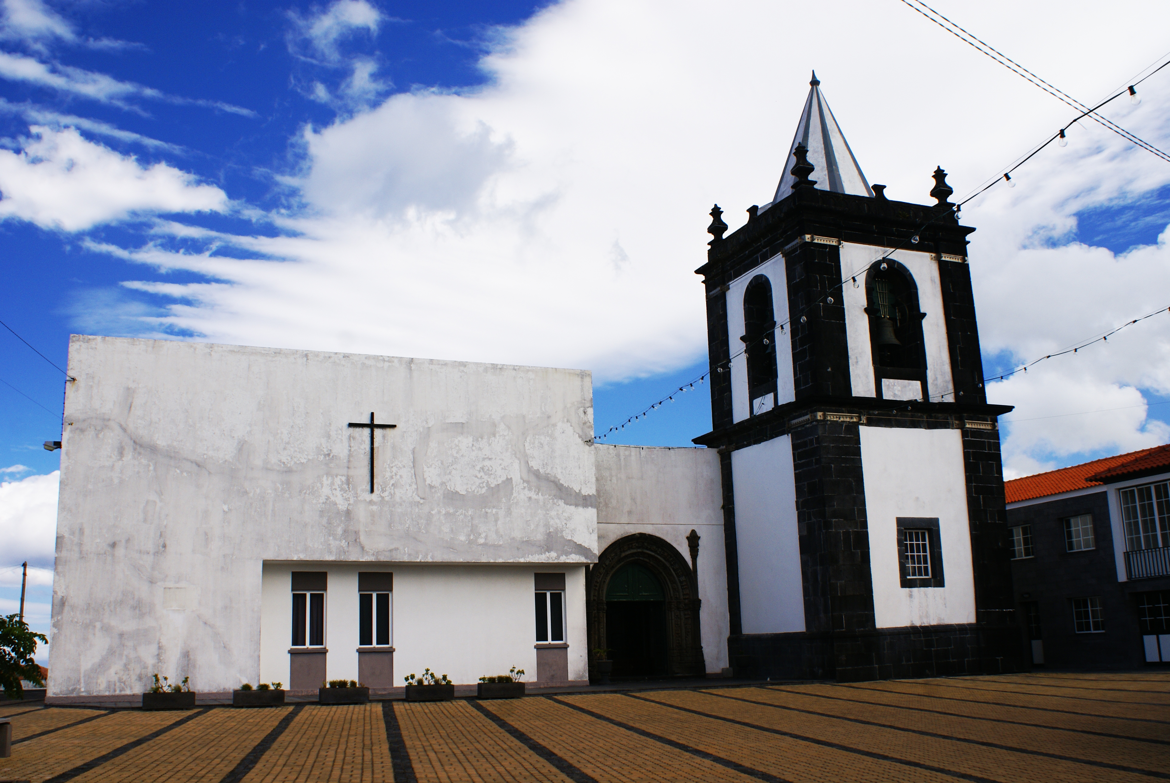 Front façade of the Church of Santa Bárbara, Cedros, Horta, Faial (Azores), Portugal